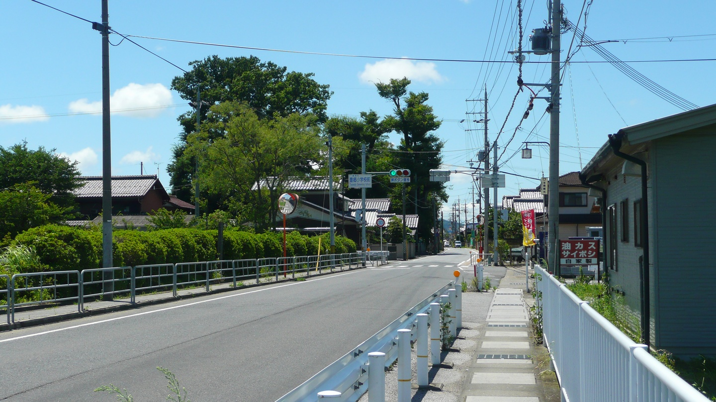 Shiga Prefectural Road No.542 Anjiki - Nishihachime Line (Toyosato Town, Shiga, Japan)